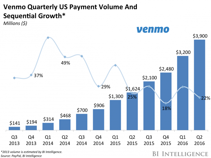 Venmo Quarterly US Payment Volume And Sequential Growth